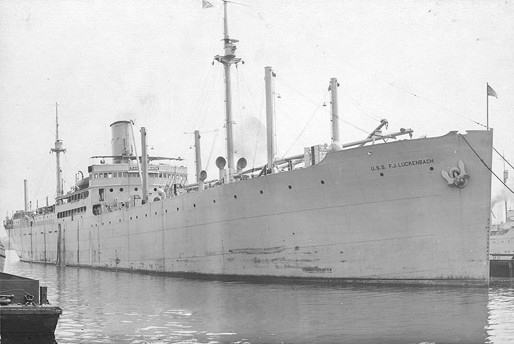 United States Navy troop transport USS F. J. Luckenbach (ID-2160) at Boston, Massachusetts